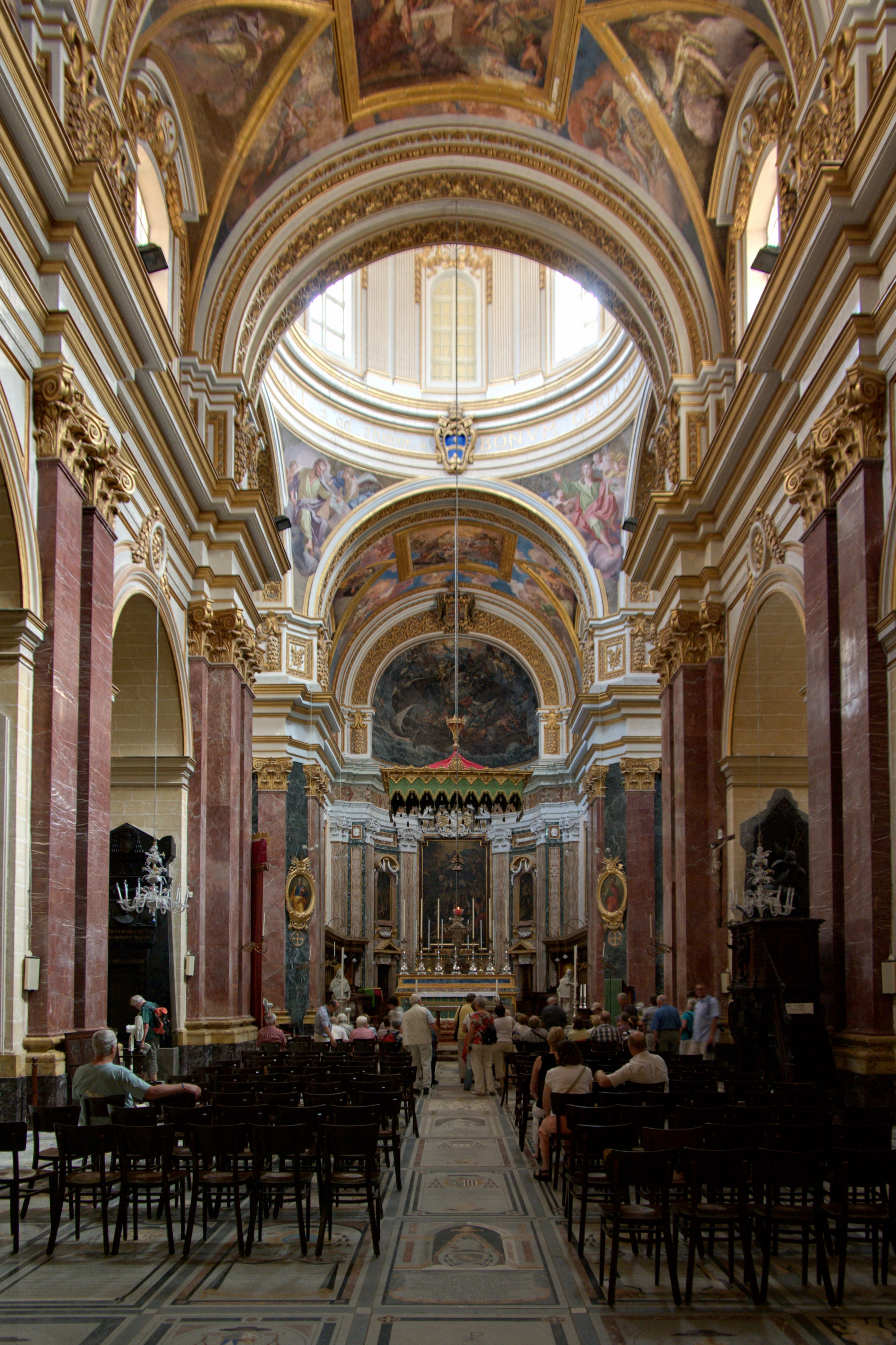 Malta, Mdina, Kathedrale St. Paul